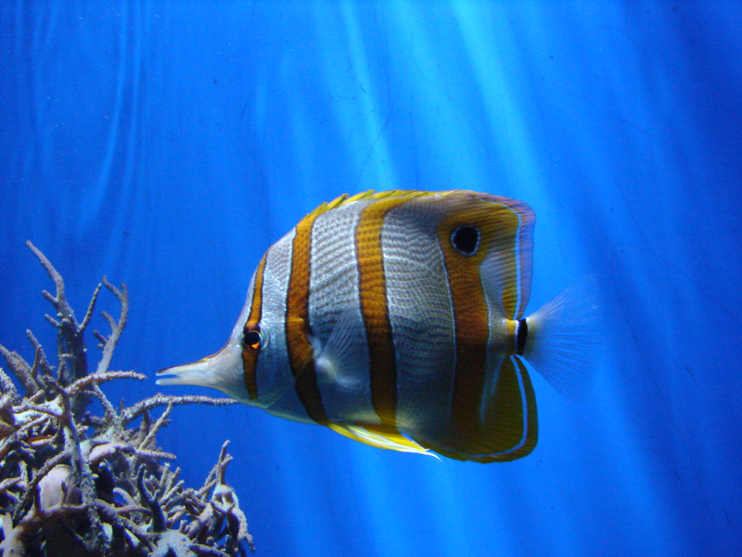 Images from London Zoo. Location: NW1 4RY